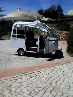 Tuk Tuk used as a taxi in the tourist season in Albufeira Portugal